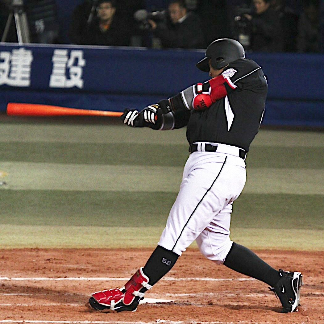 Tae-Kyun Kim, infielder of the Chiba Lotte Marines, at Yokohama Stadium.